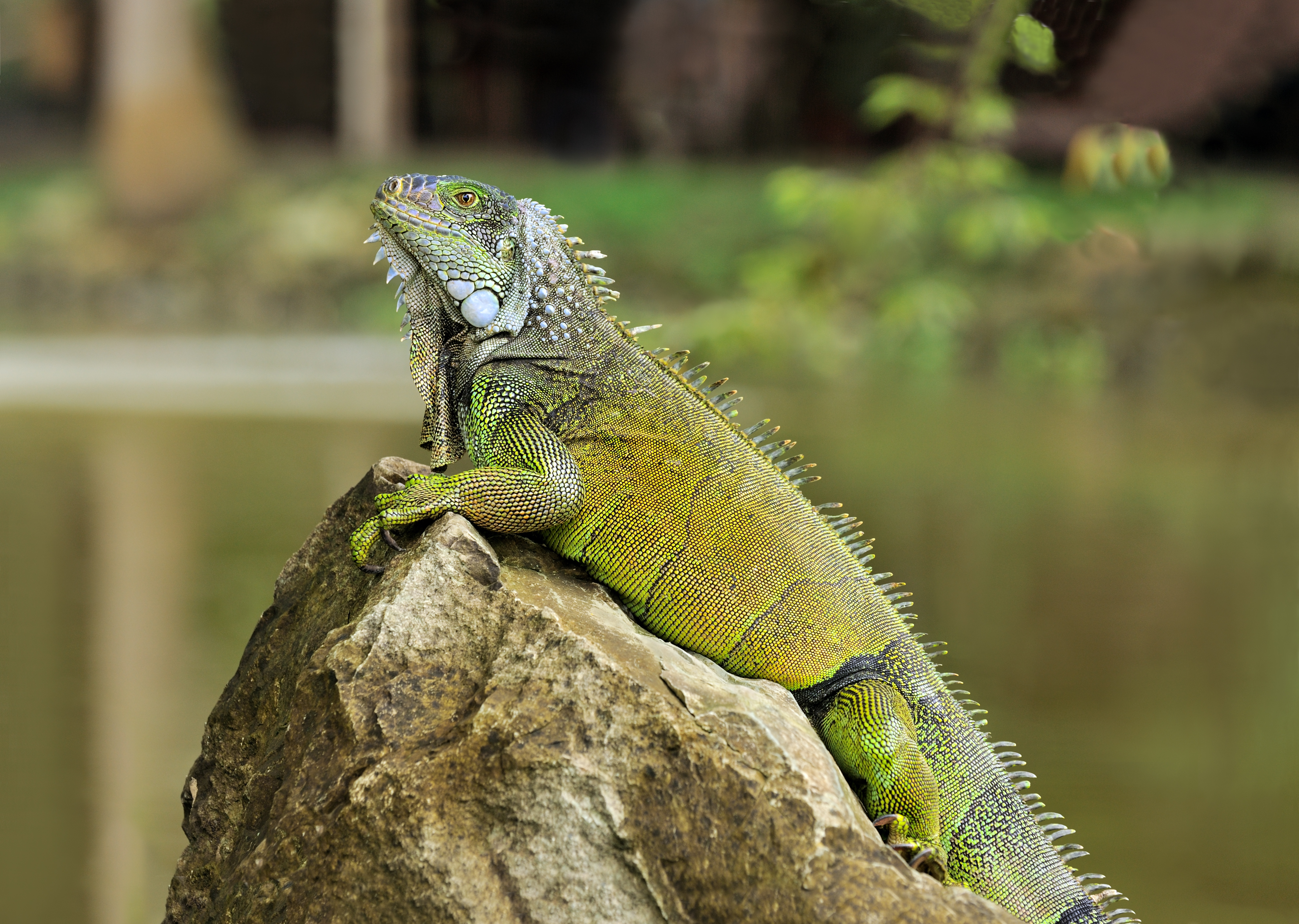 Wild Green Iguana (Iguana iguana) in the Botanical Garden at Portoviejo, Ecuador. A female individual, as seen from the relatively short dorsal spines and the green body colouration.